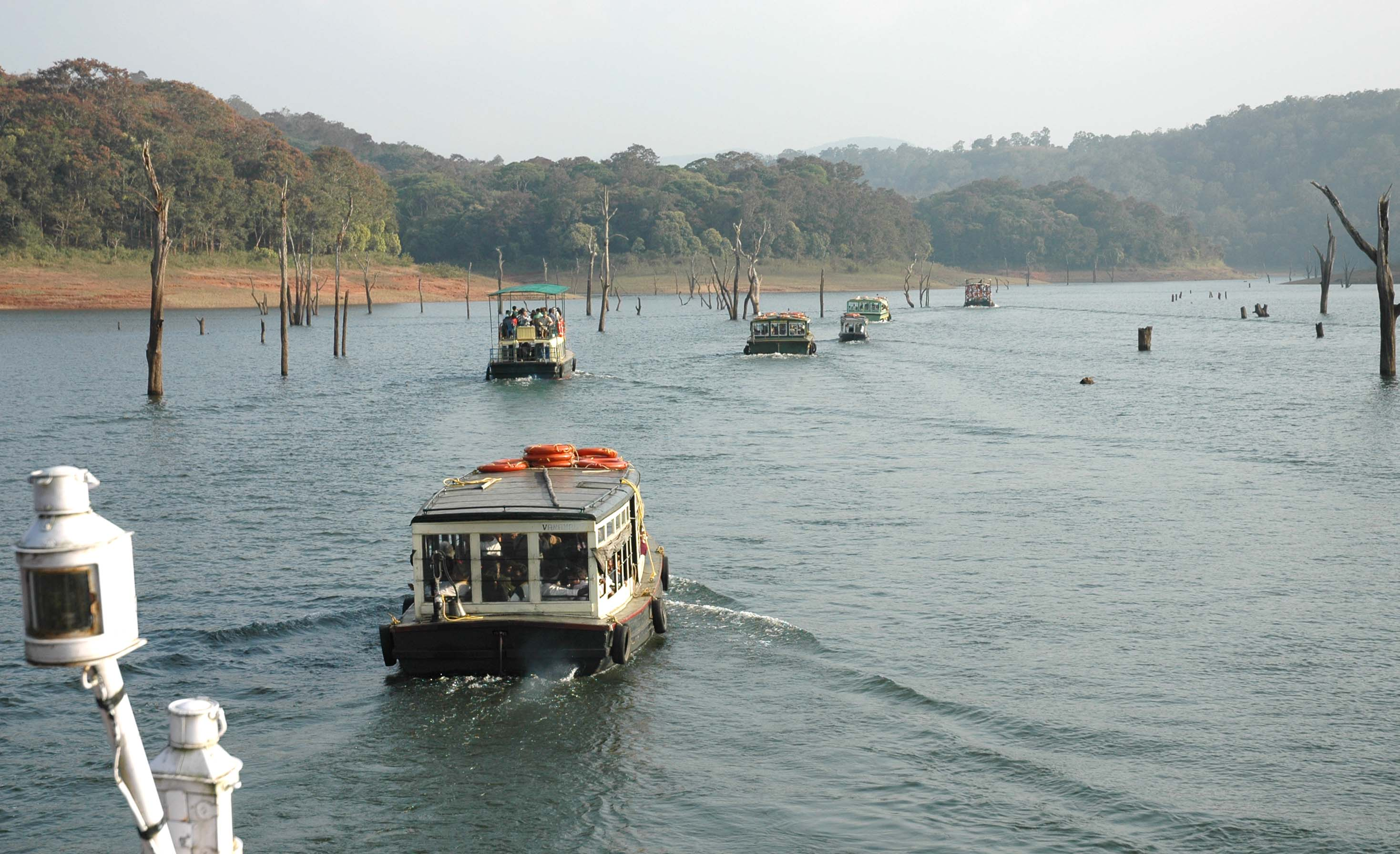 tourists in boats in the Periyar National Park, Kerala, India